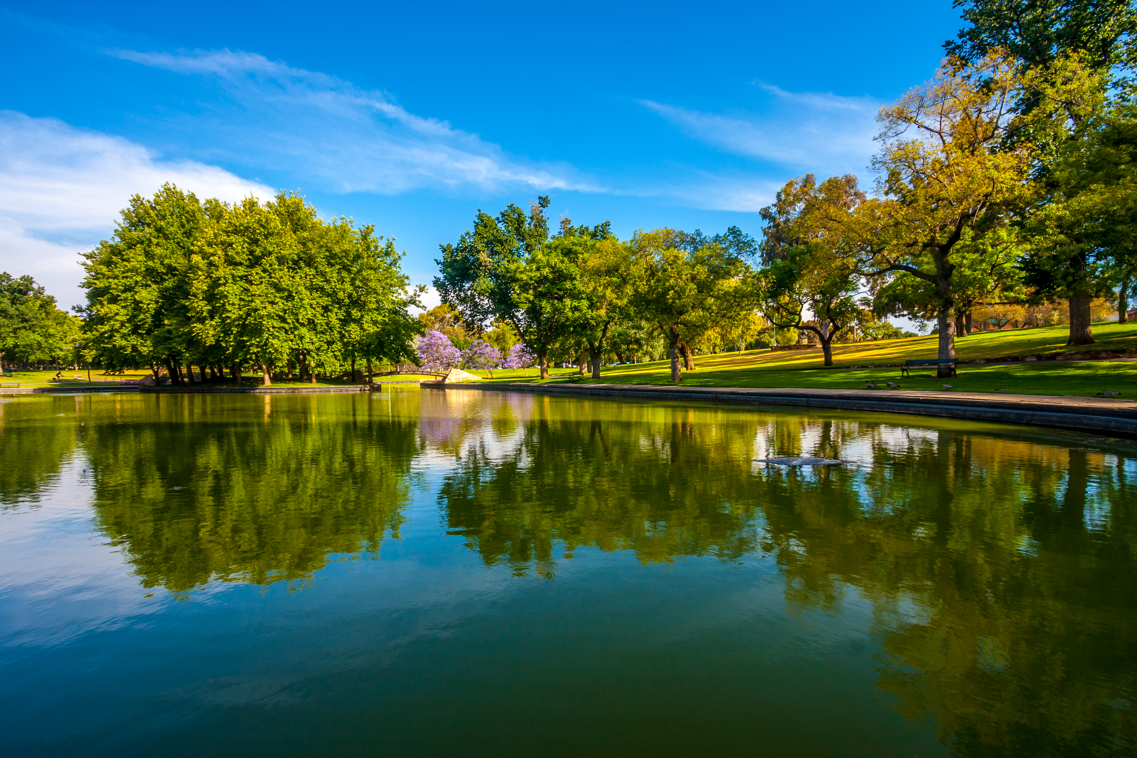 One of Adelaide's finest parks is just a small walk from the city centre, Rymill Park is the perfect spot to take the whole family for a day out. Also known as Park 14 of the Adelaide Parklands, this facility packed park has got something to suit everyone. If you're looking to take a scenic walk through Adelaide then consider taking a stroll through the walking and riding paths in Rymill Park. The Park centres around a large lake which is surrounded with sprawling green lawns. There are large trees, and some beautiful flowers. The beautiful garden is just the spot to get some fresh air, whether you're taking a jog for fitness or a peaceful stroll you'll still enjoy doing it in Rymill Park.